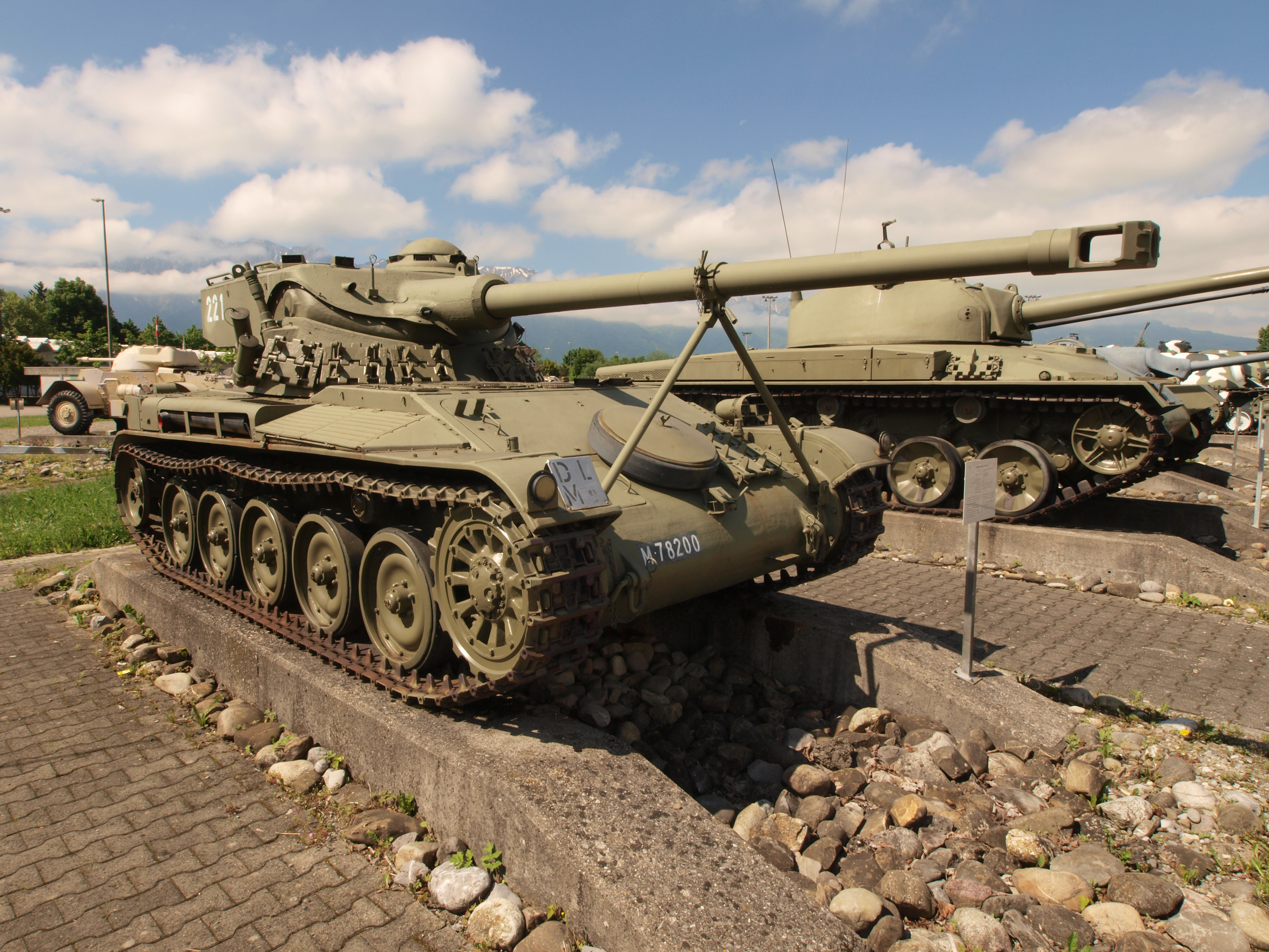 Photographed at the army base Thun, Switserland.